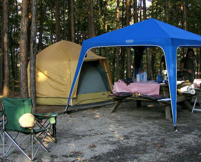 Large Car-camping tent. Taken by User:Mwanner, October, 2004.